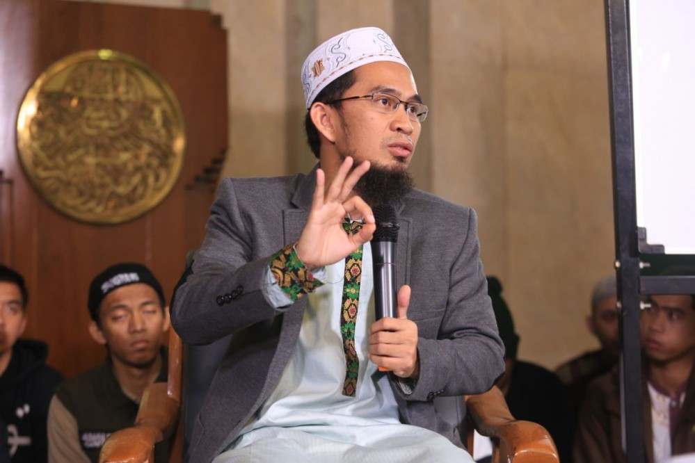 Mayor of Bandung City, Oded M. Danial attended and gave a speech at a grand tablig event with lecturer Ustaz Adi Hidayat at Al-Ukhuwah Mosque, Bandung City, Saturday (11/10/2018). In his tausiyah, Ustaz Adi Hidayat explained about Heroes